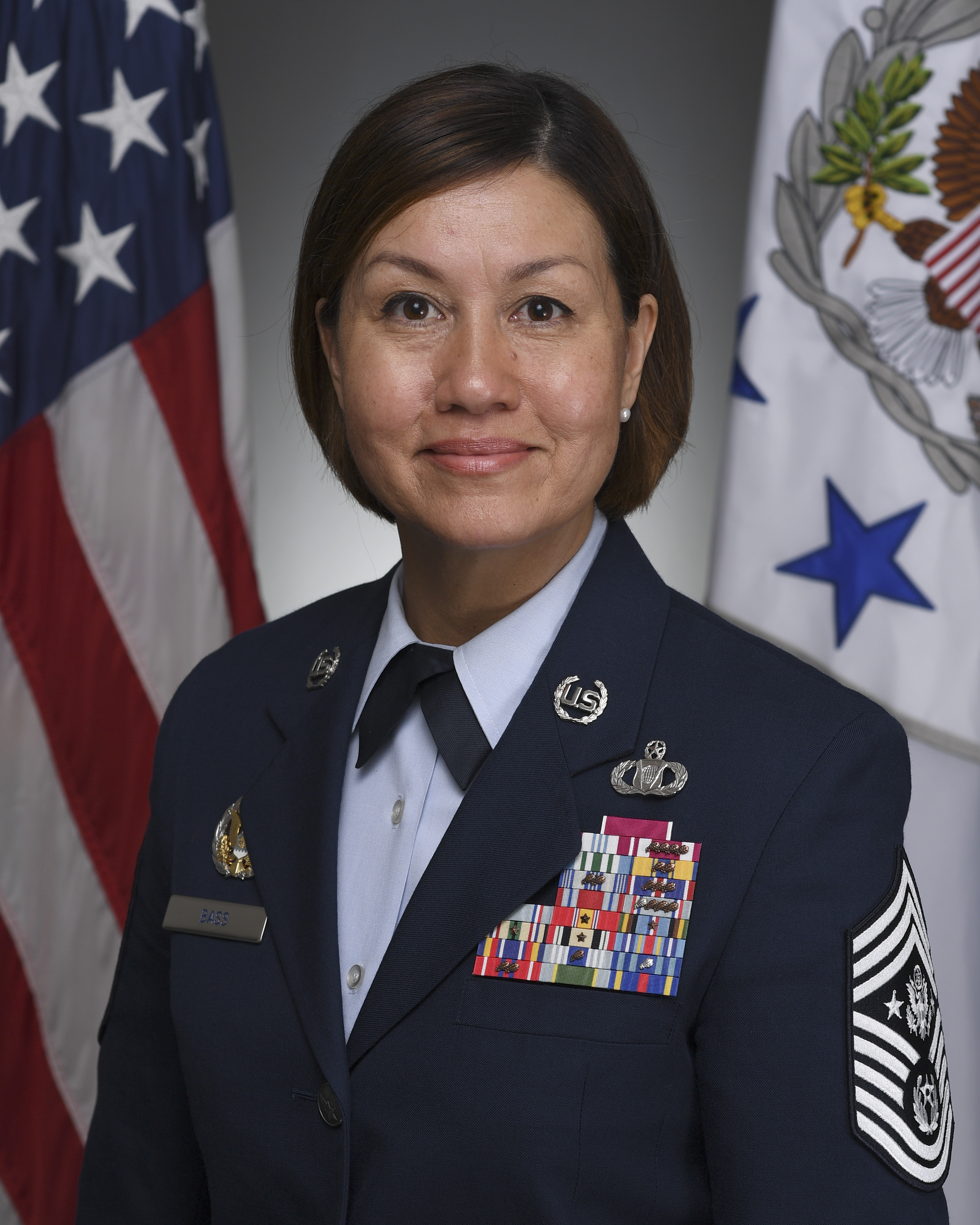 CMSgt Joanne Bass BIO